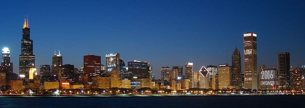 Chicago Skyline with the words "Chicago 2016".